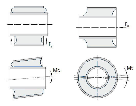 Виды деформаций сайлентблока